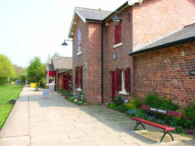 Old station at Thorpe Thewles. This old station building is now the Stockton Council's visitor centre for the Wynyard Woodland Park, a linear park aligned along an old railway. The path along the railway was formerly known as the Castle Eden Walkway - indeed that part beyond Stockton's boundary is probably still known by that name. Nearly all the notices still refer to the park by its old name.